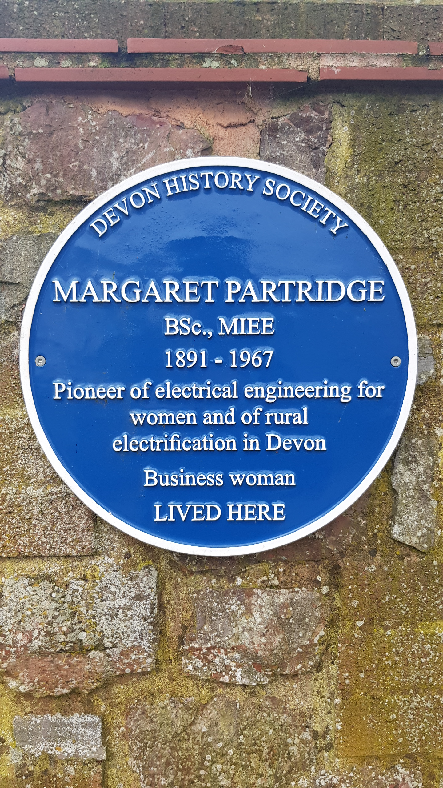 Margaret Mary Partridge (8 April 1891 – 27 October 1967) was an electrical engineer, contractor and founder member of the Women's Engineering Society (WES). This plaque in Willand,. Devon was put up by the Devon History Society to commemorate her life and work.